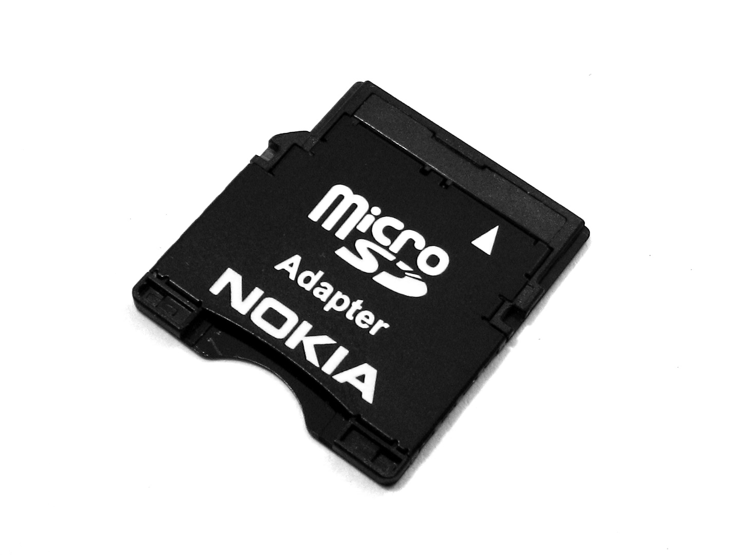 micro SD adapter